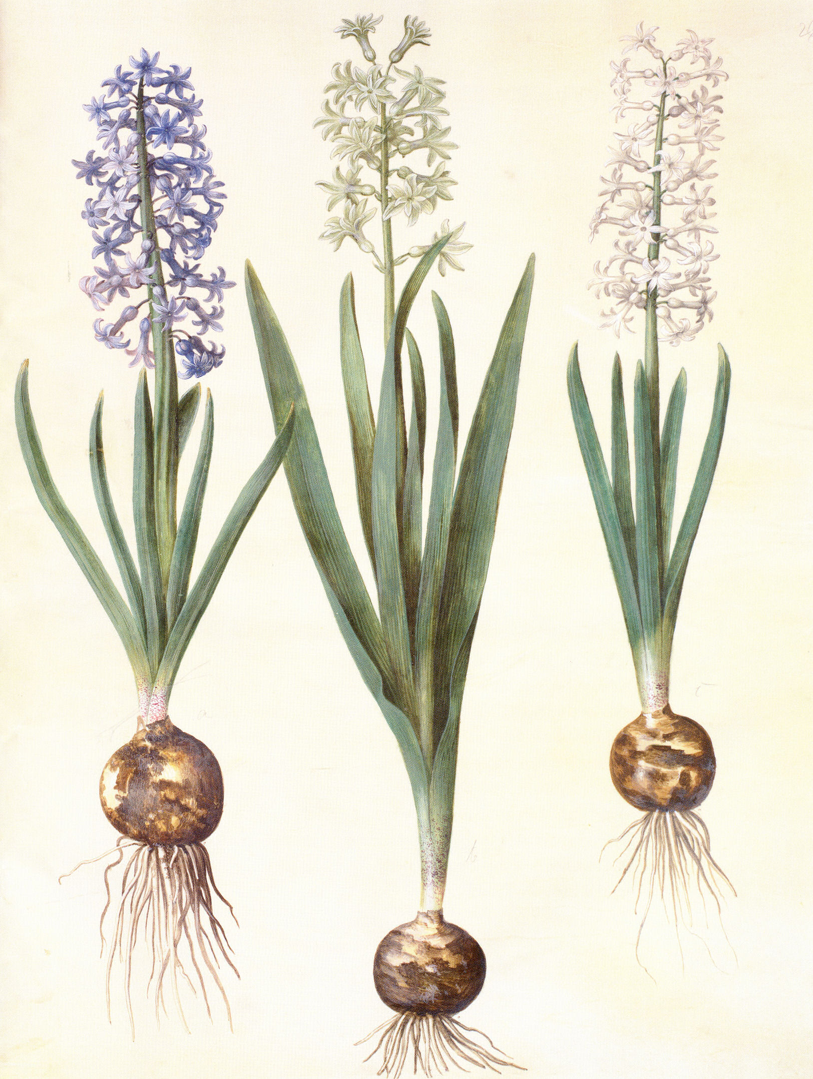 Hyacinthos orientalis, gouache on vellum, in: Gottorfer Codex